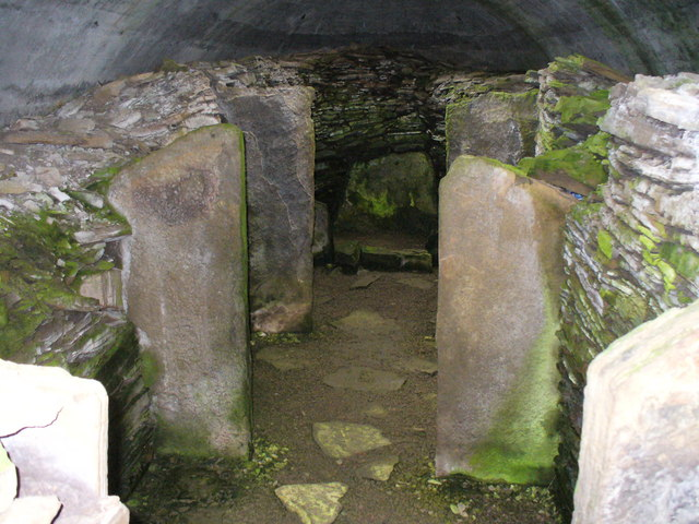 Interior of Knowe of Yarso The stone-age tomb is large enough to comfortably stand up inside it. The large upright slabs set apart areas with flat surfaces or shelves. The roof is modern concrete!